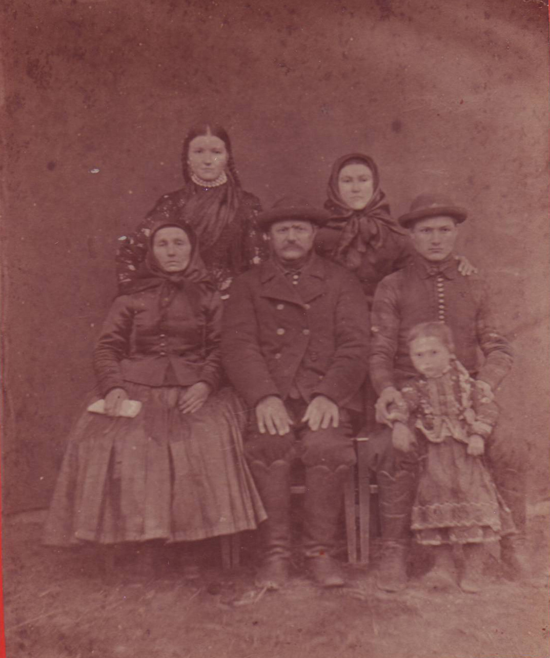 A photograph of a Vojvodinian Slovaks family in the oldest type of traditional costume. End of the 19th century. Srpski (latinica): Fotografija porodice vojvođanskih Slovaka u najstarijem tipu tradicionalne nošnje. Kraj 19. veka.